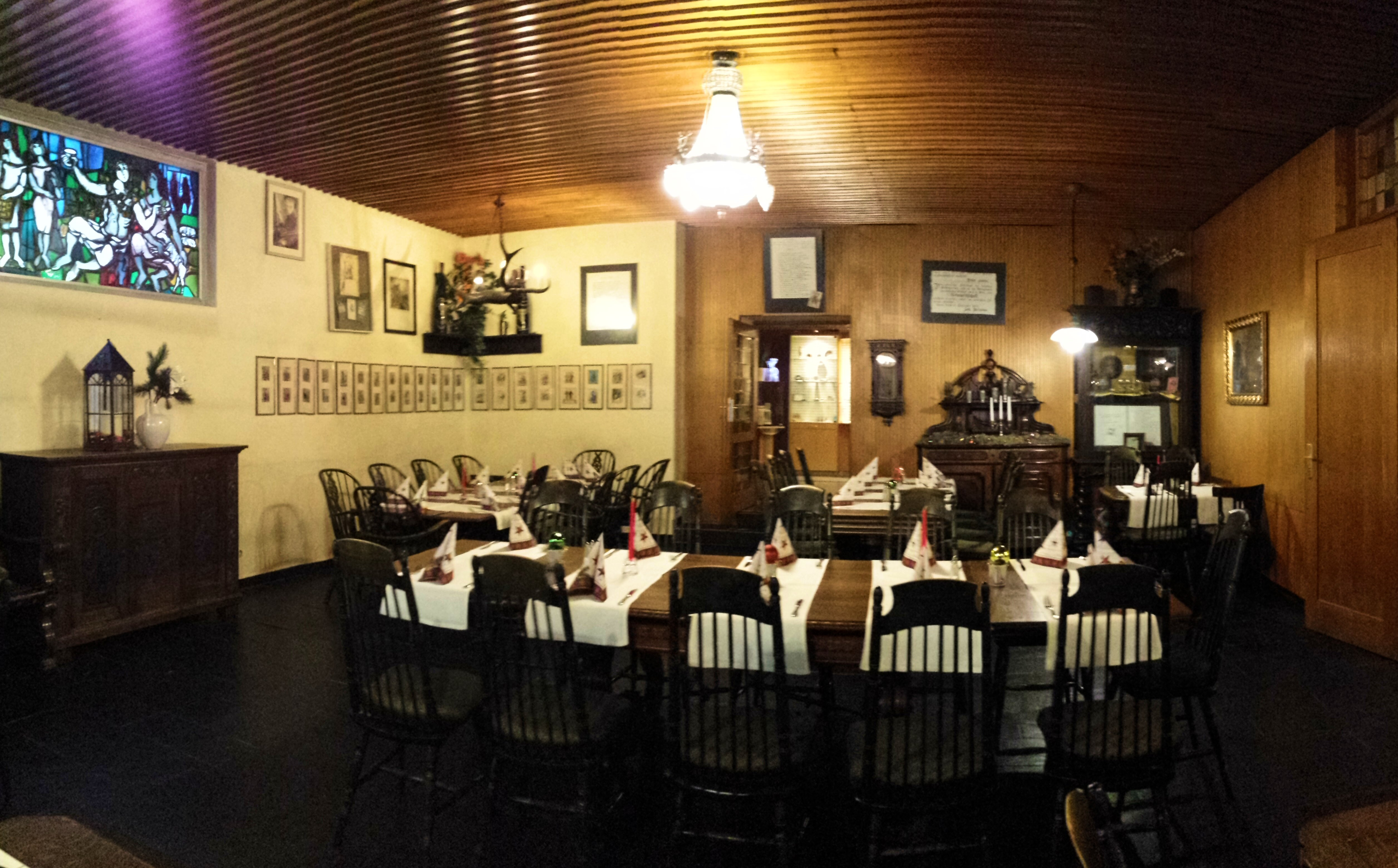 Winetavern Brixiadenstube in Cochem-Cond - Meeting Place of the Poet and Writer Joseph von Lauff